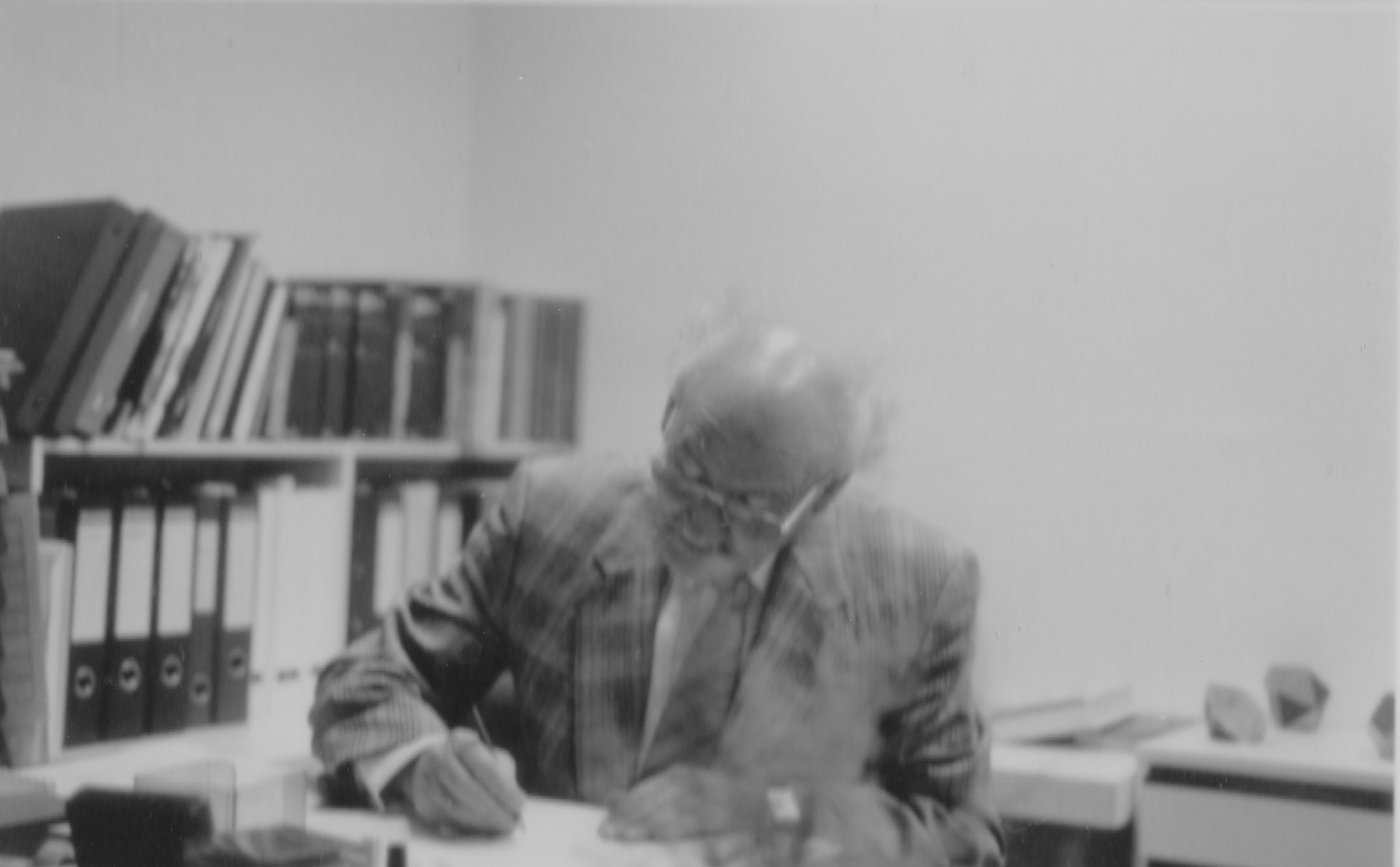 Jan van de Kerkhof bereidt zijn cursus voor.